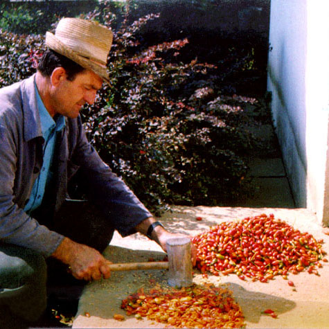 Extraction of Rosa achenes from hip